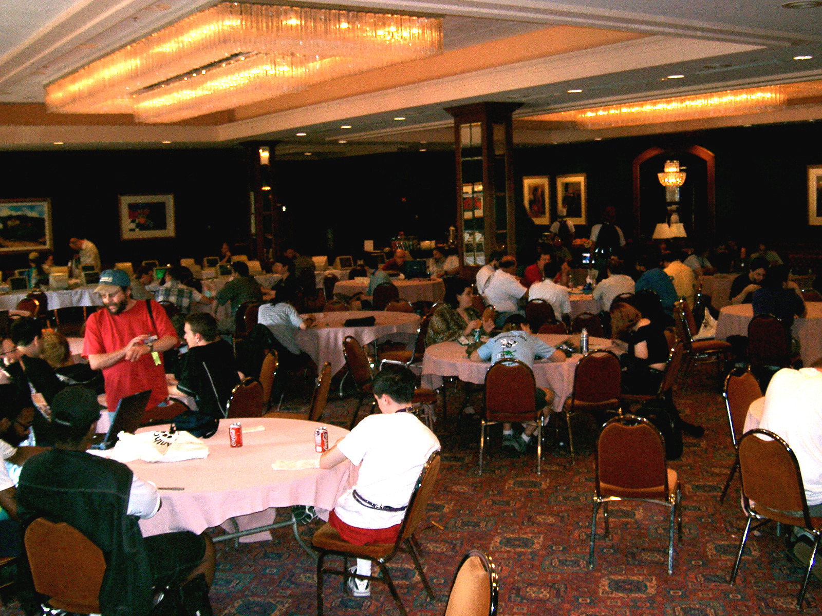 A photo of the Zoo at Anthrocon 2004 that I took.